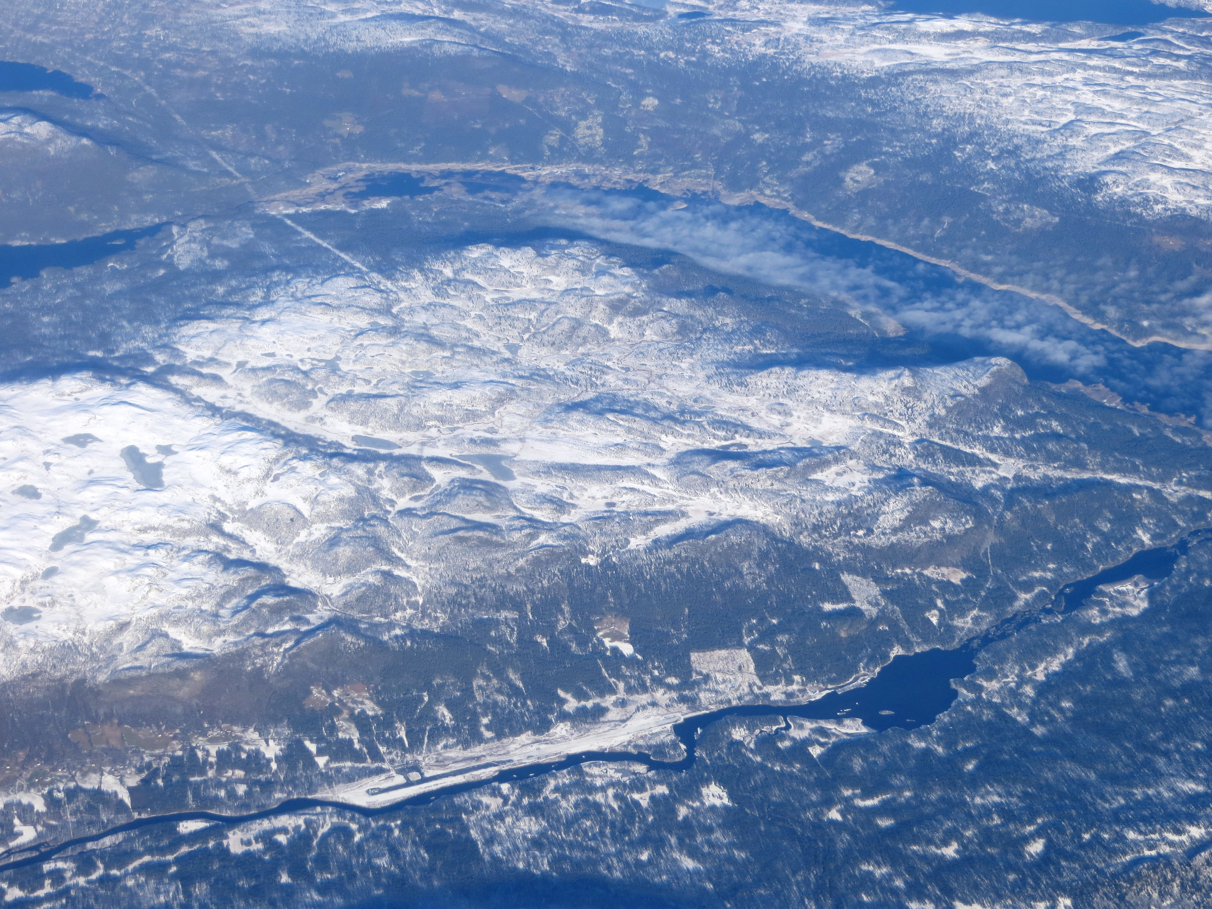 The Dagali area of southern Hol municipality - Buskerud (Norway)